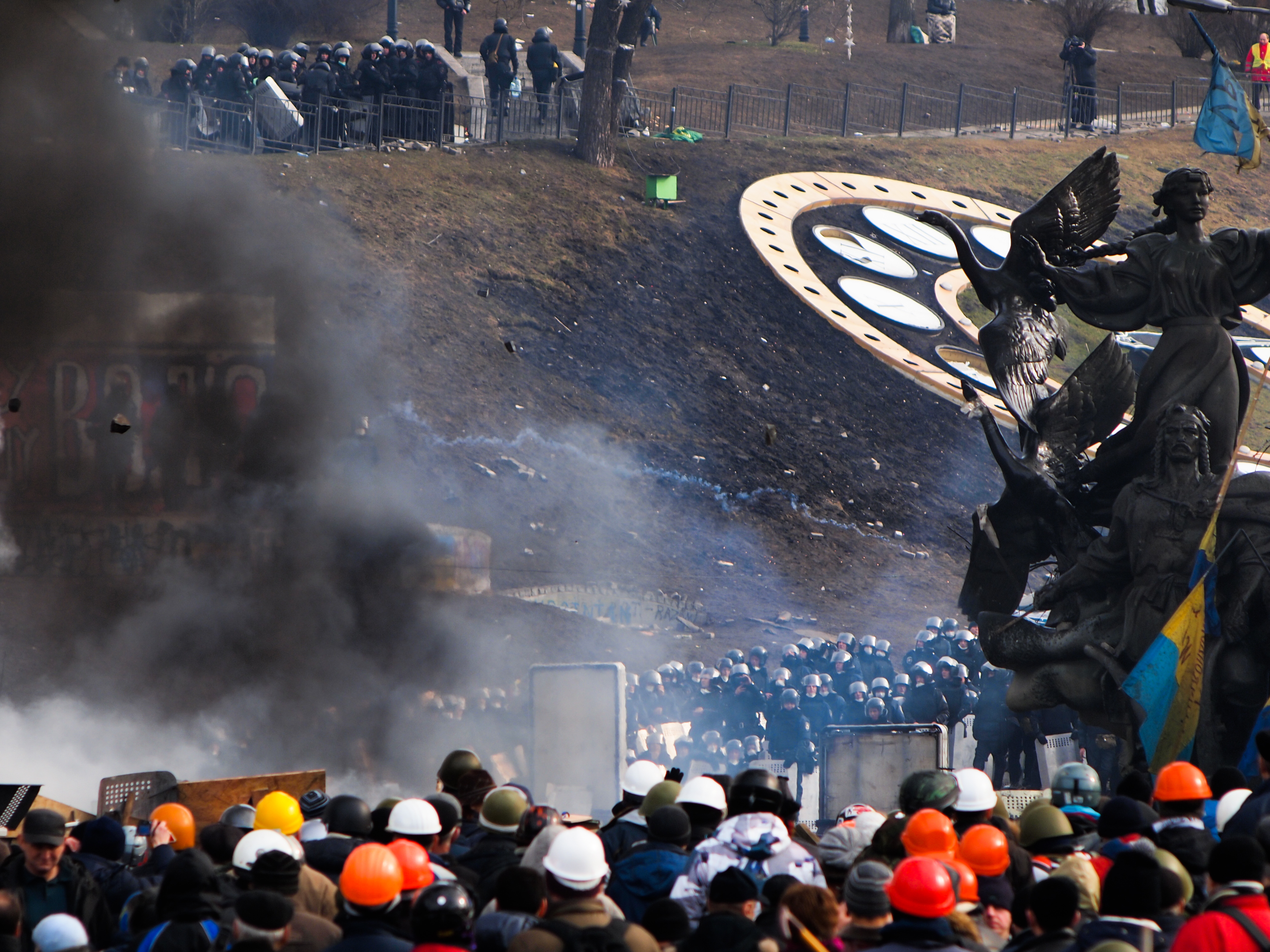 Euromaidan in Kiev, 19 February 2014. Police on Independence square (in background, lower right and upper left corners of the picture). Protesters are in front.